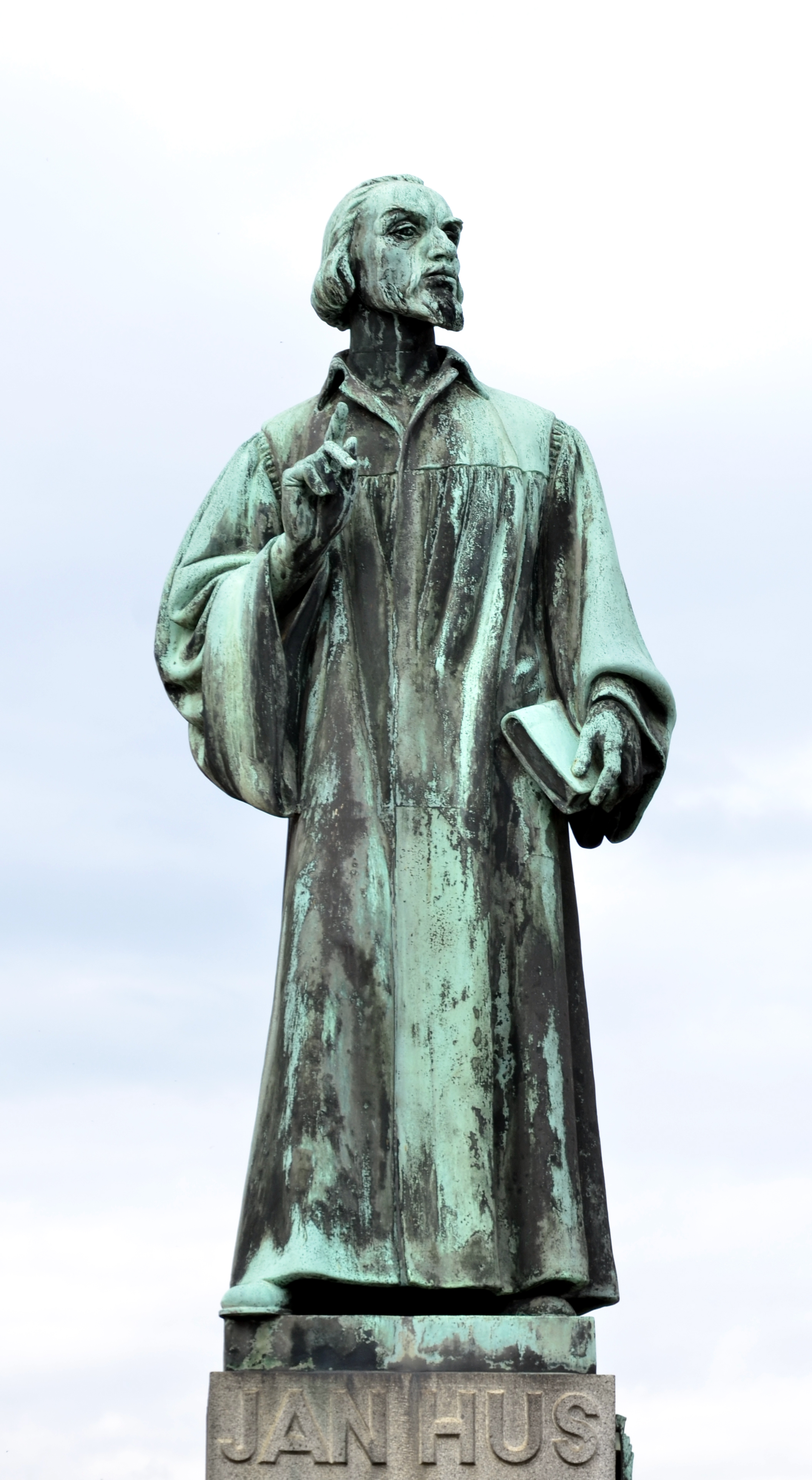 Rudolf Březa, Monument of Jan Hus, Roudnice nad Labem